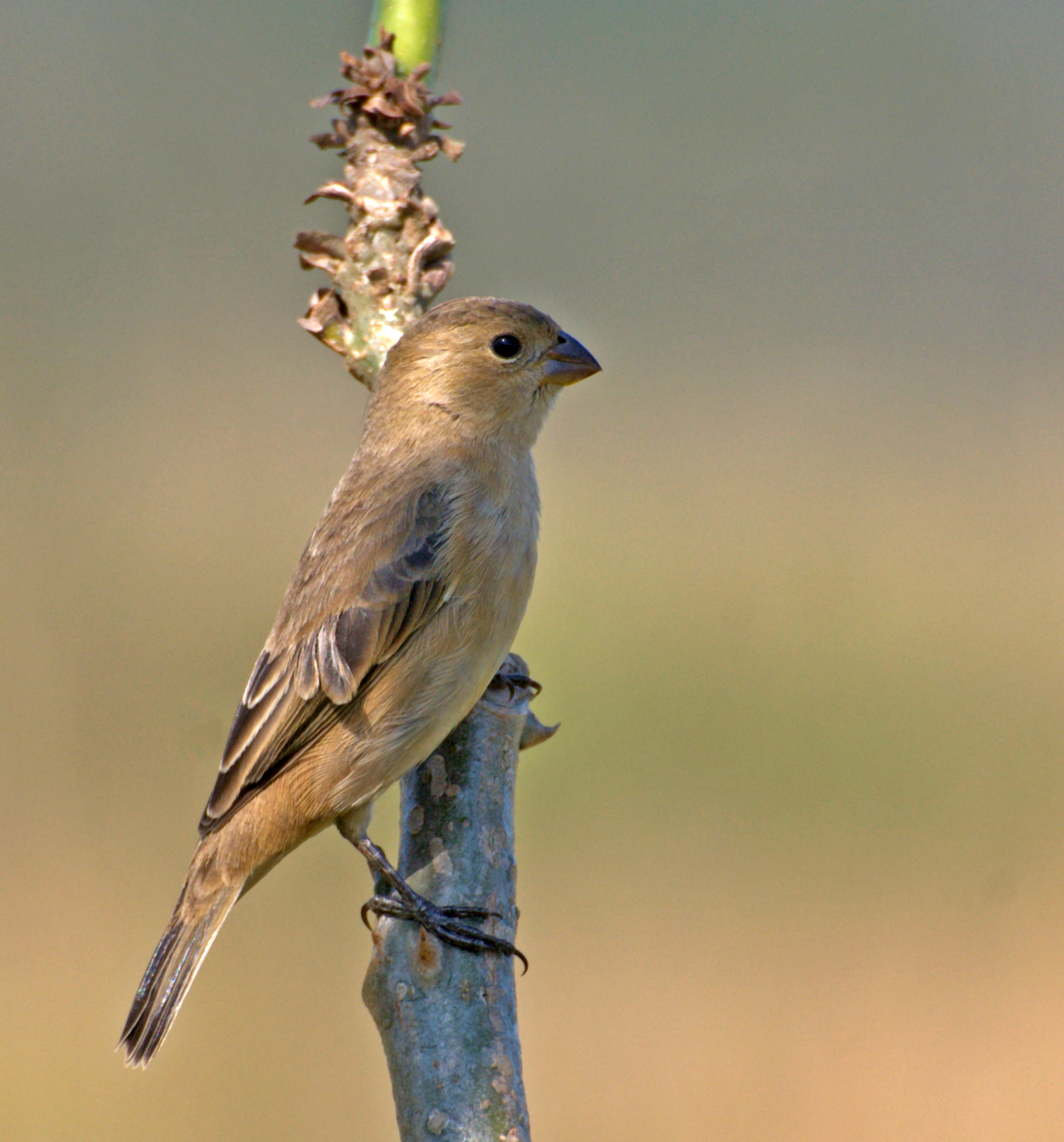 A Capped Seedeater in Mogi das Cruzes, São Paulo, Brazil.